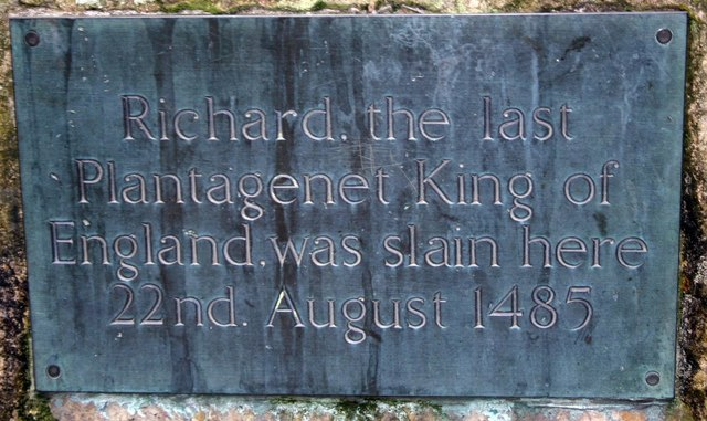 Memorial plaque to King Richard III; near to Shenton, Leicestershire, Great Britain